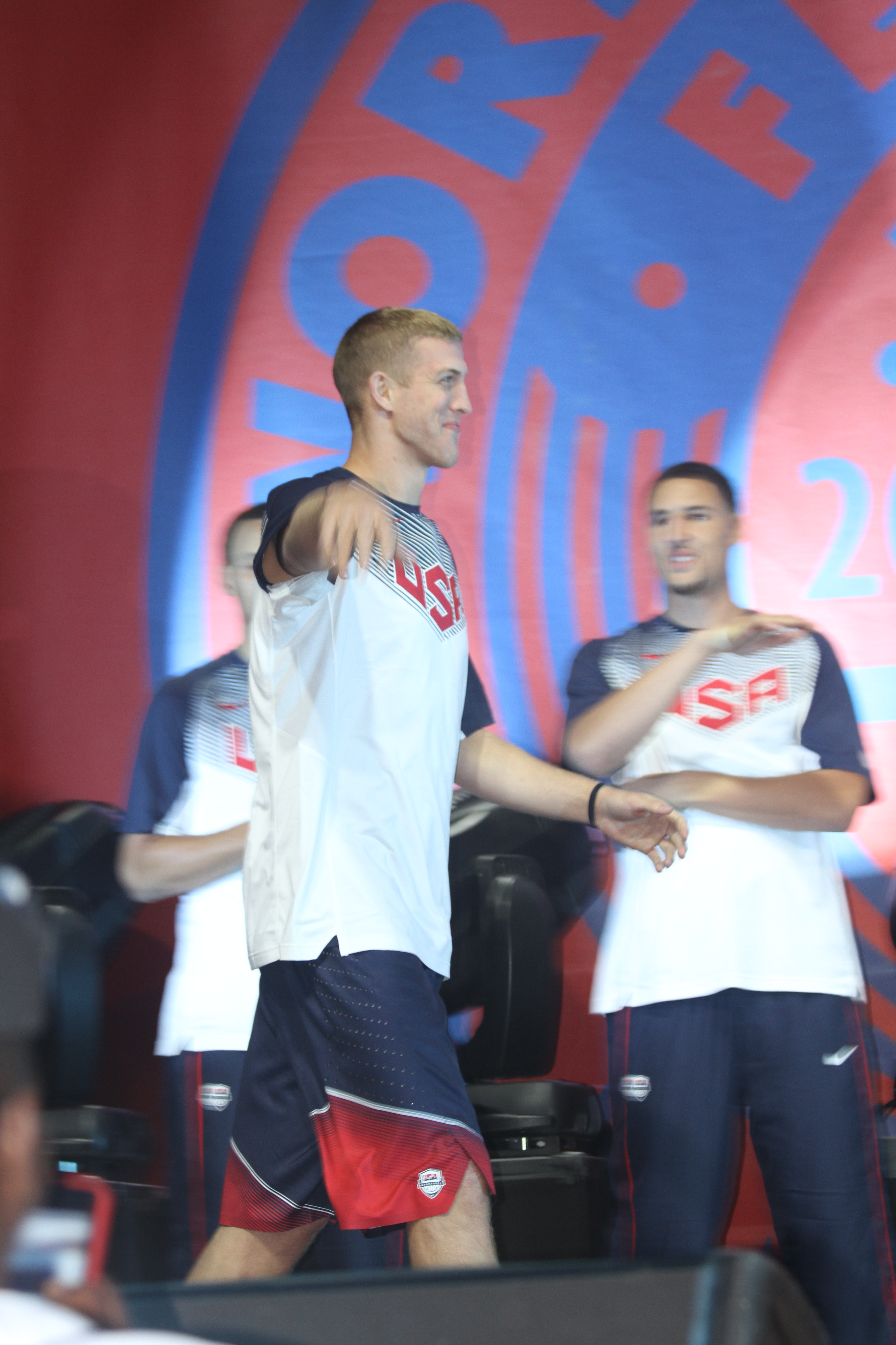 Mason Plumlee at 2014 World Basketball Festival at 63rd Street Beach in Chicago